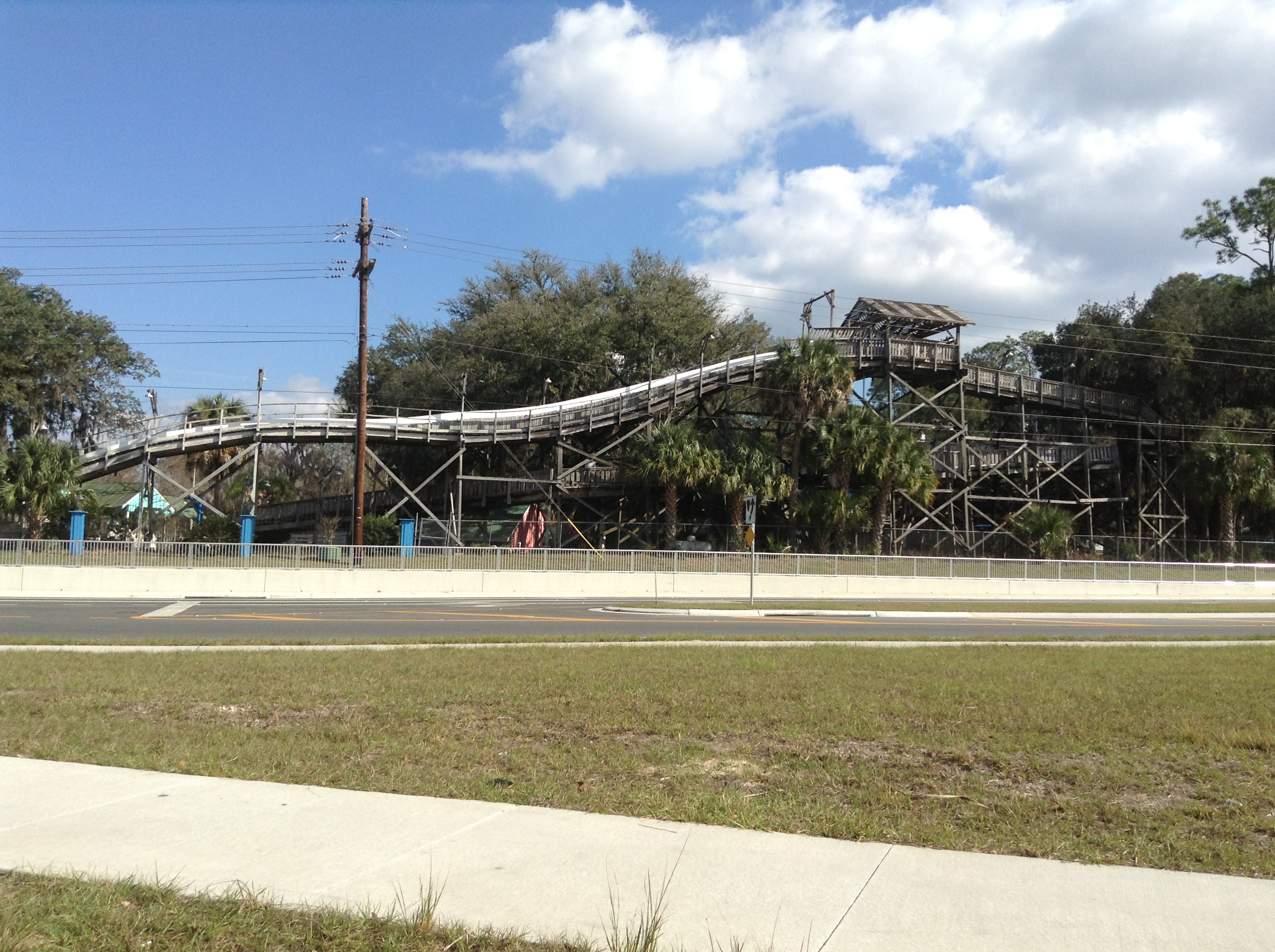 Wild Water's "Silver Bullet", as seen on US State Road 40.